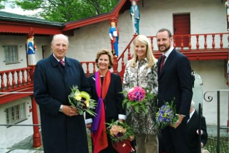 Norwegian royal family visiting Austråttborgen (en: The Manor of Austrått), in Ørland, Norway, june 2006